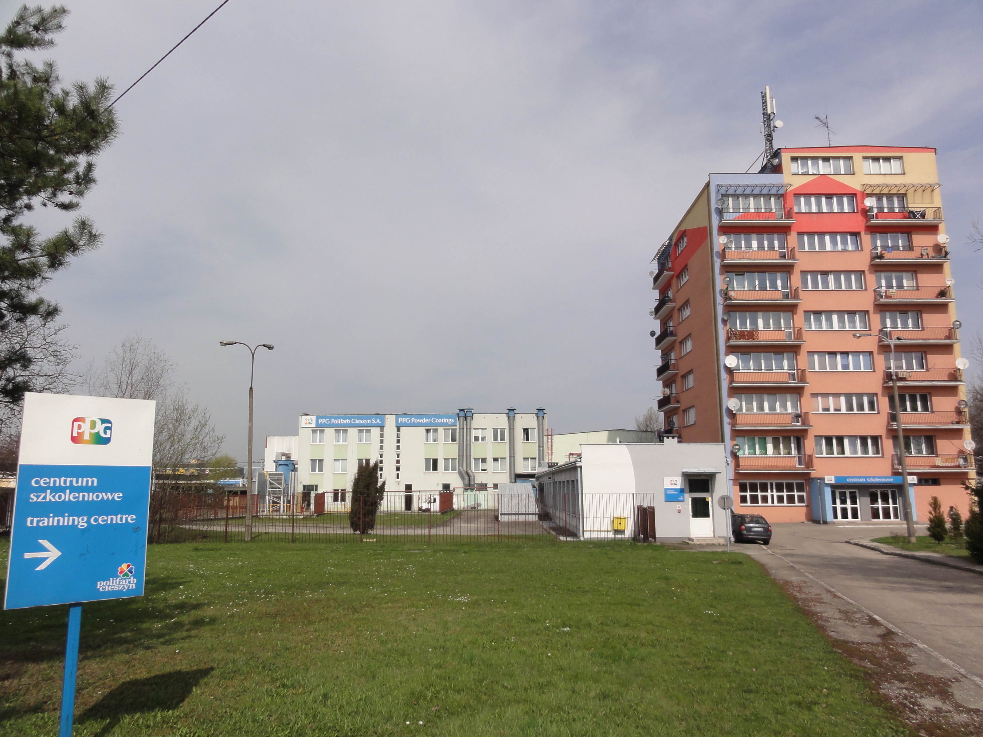 Fabric in Cieszyn-Marklowice.